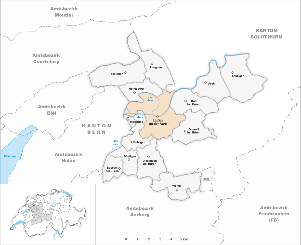 Municipality Büren an der Aare